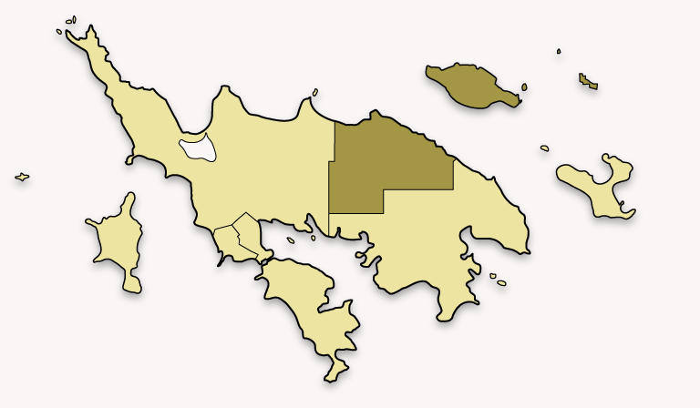 Map of Culebra (Puerto Rico) highlighting San Isidro ward